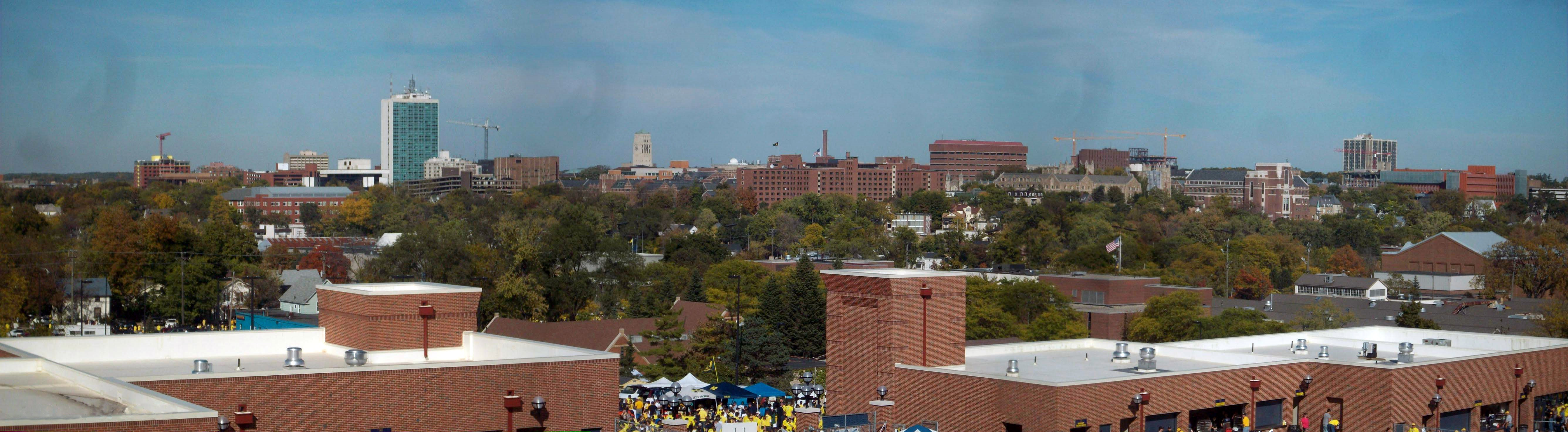 Ann Arbor as seen from the University of Michigan Stadium.